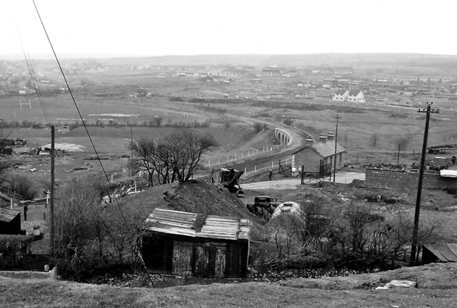 Site of Beaufort Station, near to Beaufort, Blaenau Gwent, Great Britain. Westward view from Heads of Valleys Road over remains of Beaufort Station, which had been on the ex-LNW Abergavenny - Merthyr line and was the junction of a branch to Ebbw Vale (High Level). The branch closed 5/2/51 and Beaufort station was closed with passenger services on the through line on 6/1/58, goods lasting until 2/11/59. A desolate area!